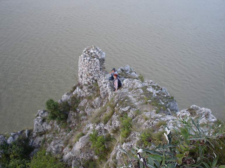 Only path to Donjon Tower.